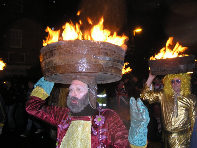 Allendale Town Tar Bar'l Allendale guisers in fancy dress parading flaming tar barrels around the village heading for the ceremonial lighting of the bonfire in Allendale Town Square to welcome in the New Year during the ancient annual fire festival known as the Tar Bar'l.